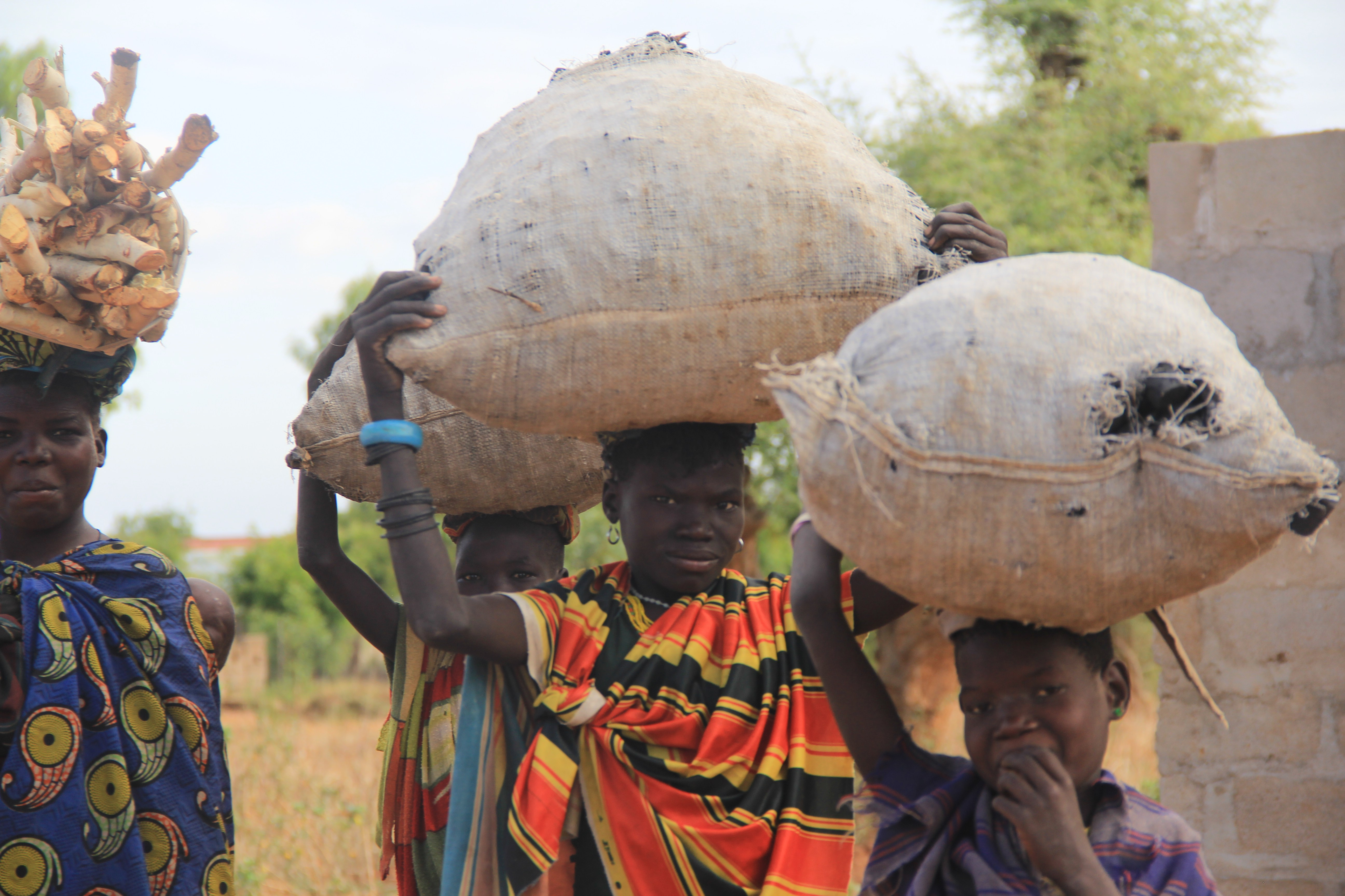 gathering and collecting charcoal from kilns for home use. This is an image of "African people at work" from Uganda